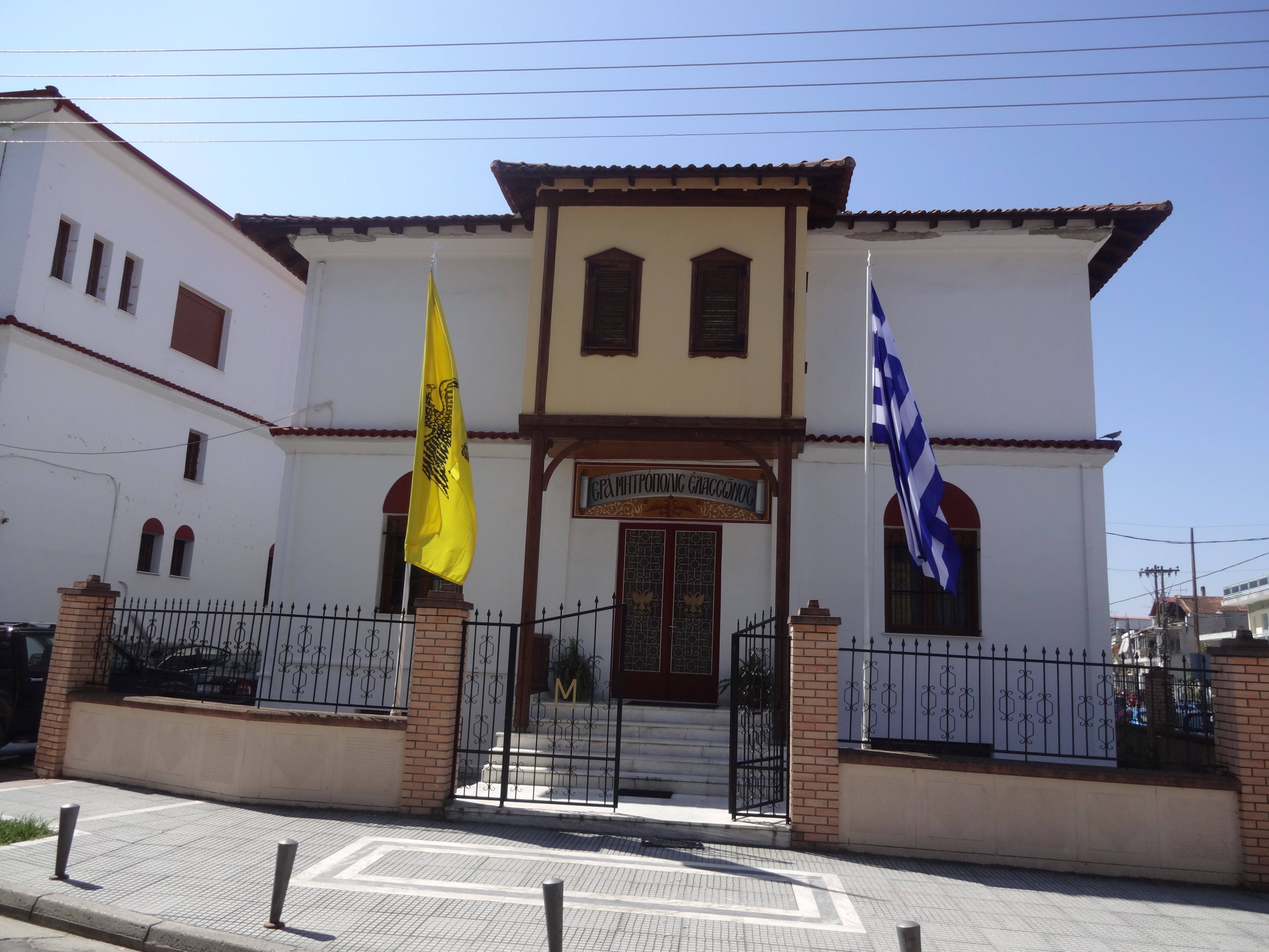 Elassona, Greece. Metropolis.